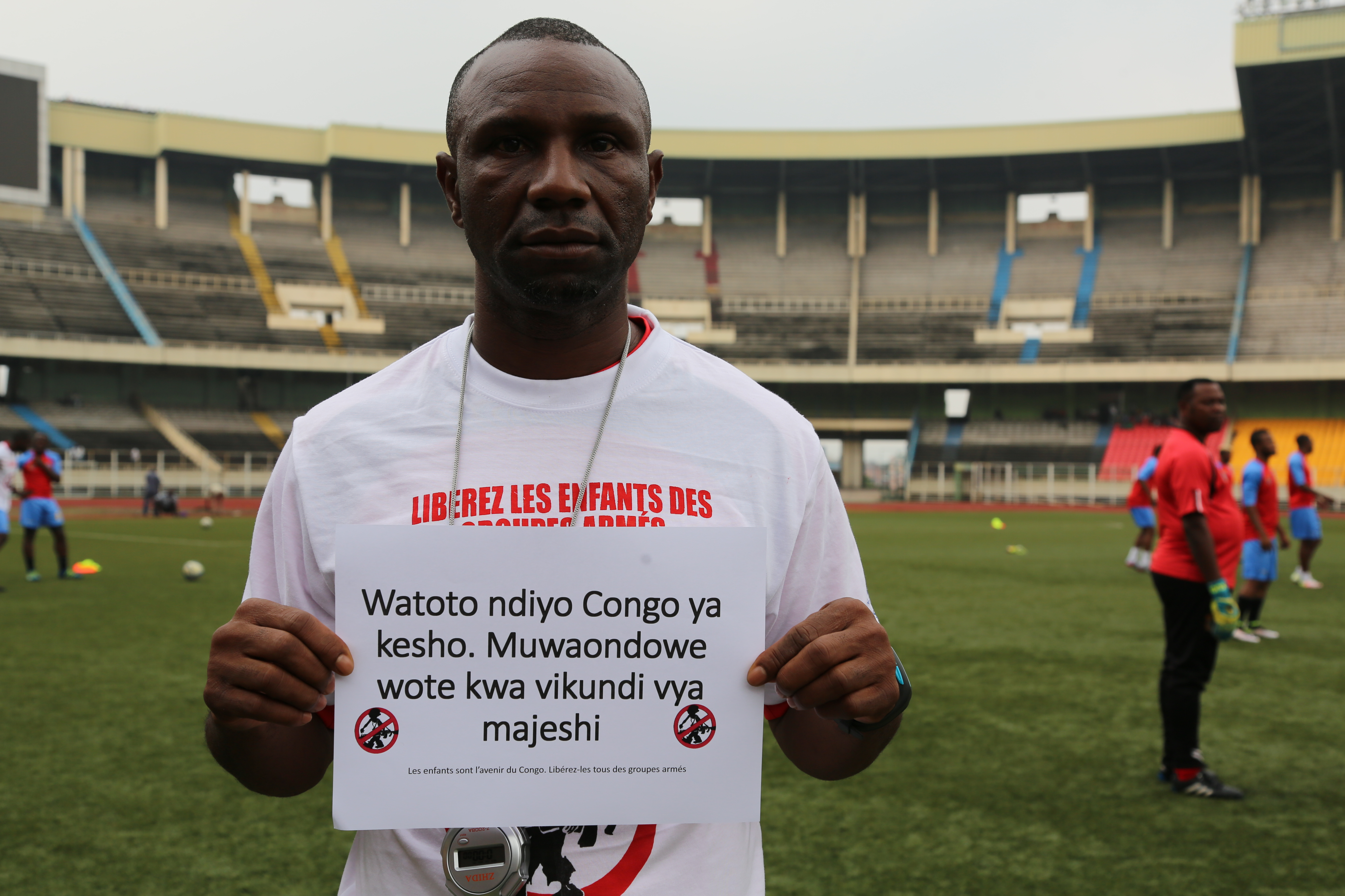 Florent Ibengé participating in a MONUSCO Child Protection Unit campaign against recruitment of Child soldiers.